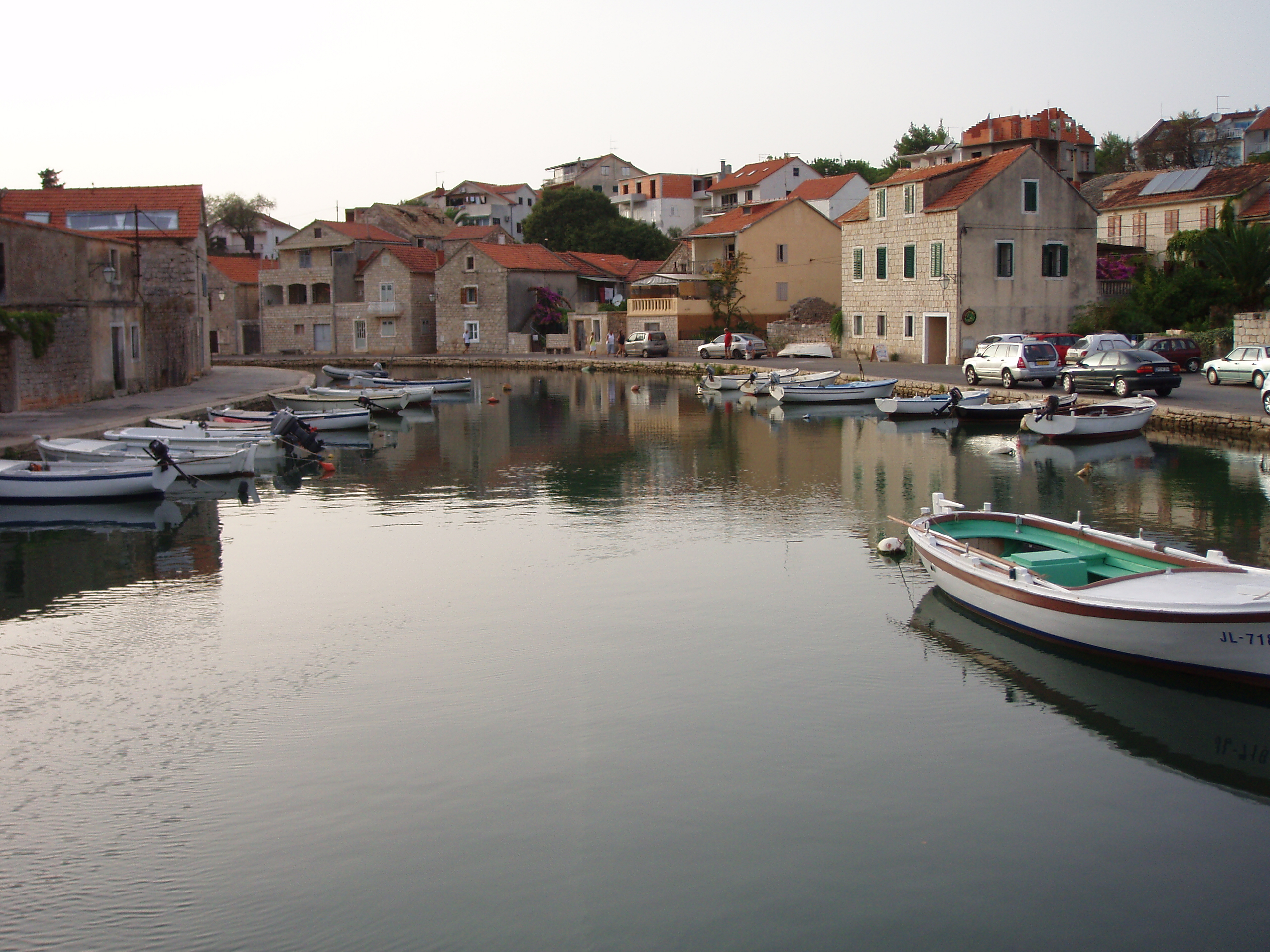 Vrboska on the island of Hvar